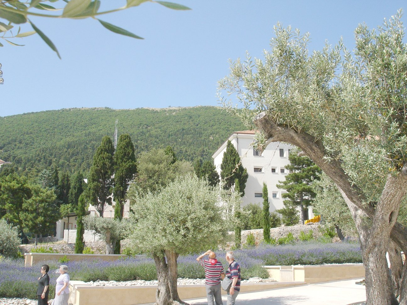 The olive trees and lavender blooming in front of the convent in San Giovanni Rotondo.